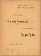 Title page of a short story by Octave Mirbeau (1848-1917), translated into esperanto.